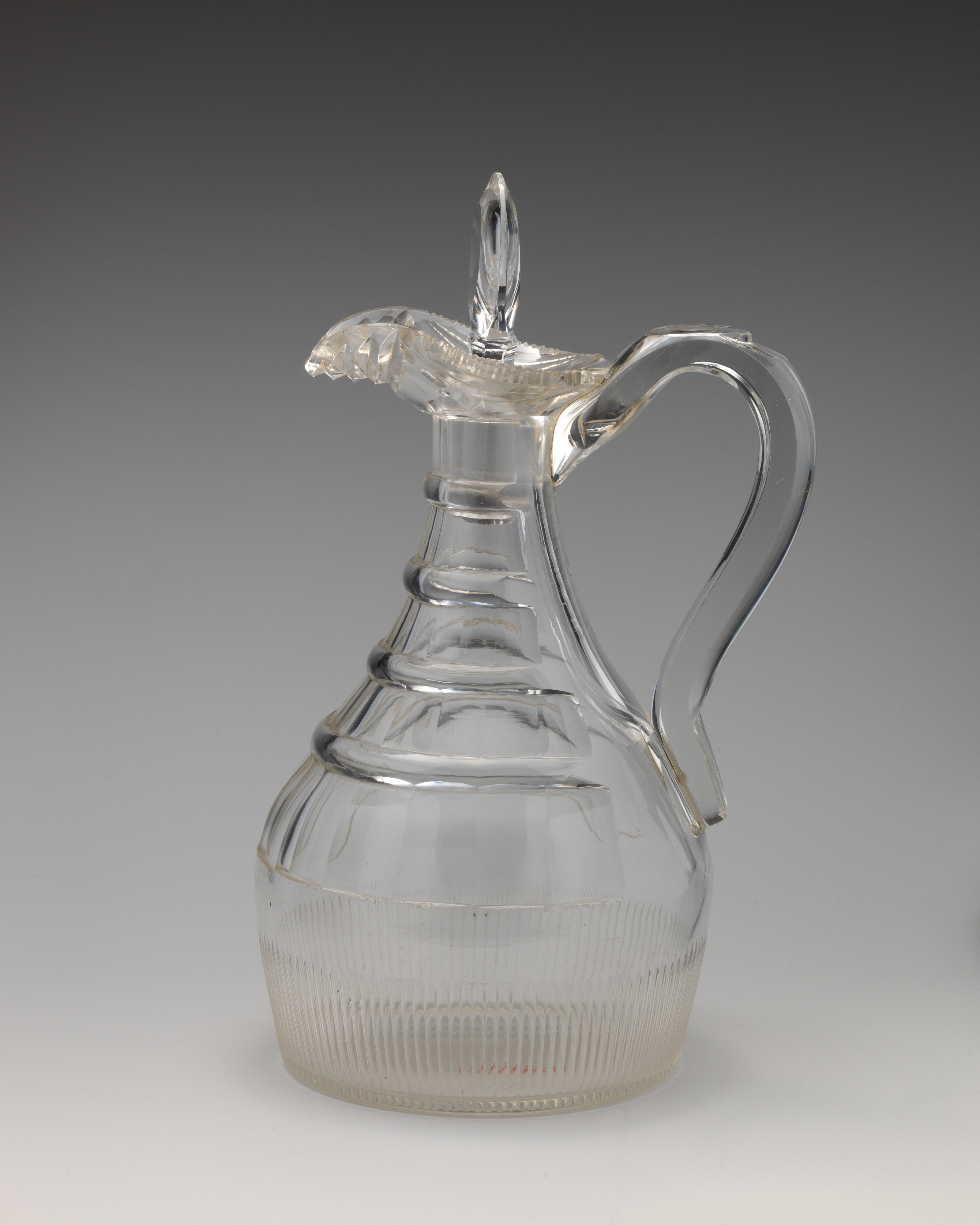 British or Irish; Claret jug; Glass